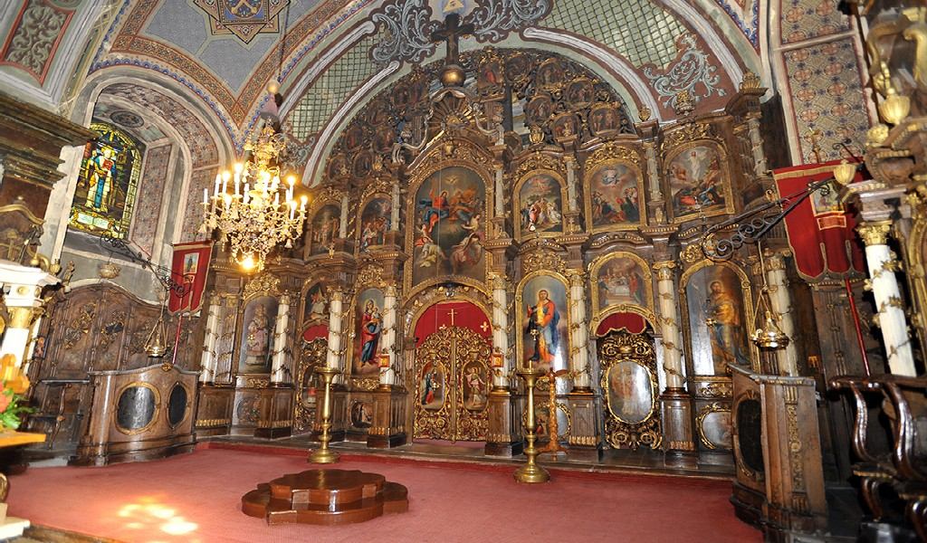 Iconostasis inside of Church of Saint John in Sombor